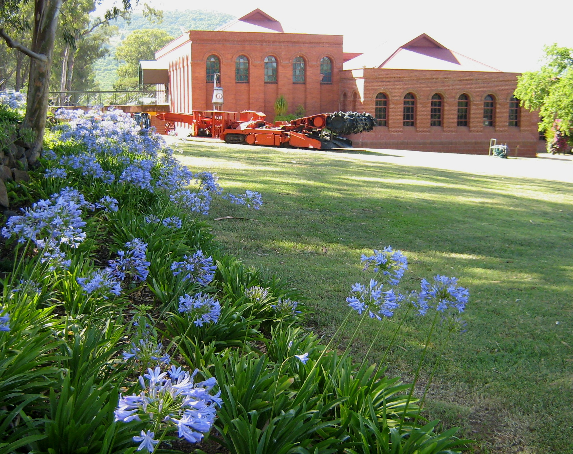 A copy of the power hosue from Burnside mine now houses the coal mining, glass and bead museums.